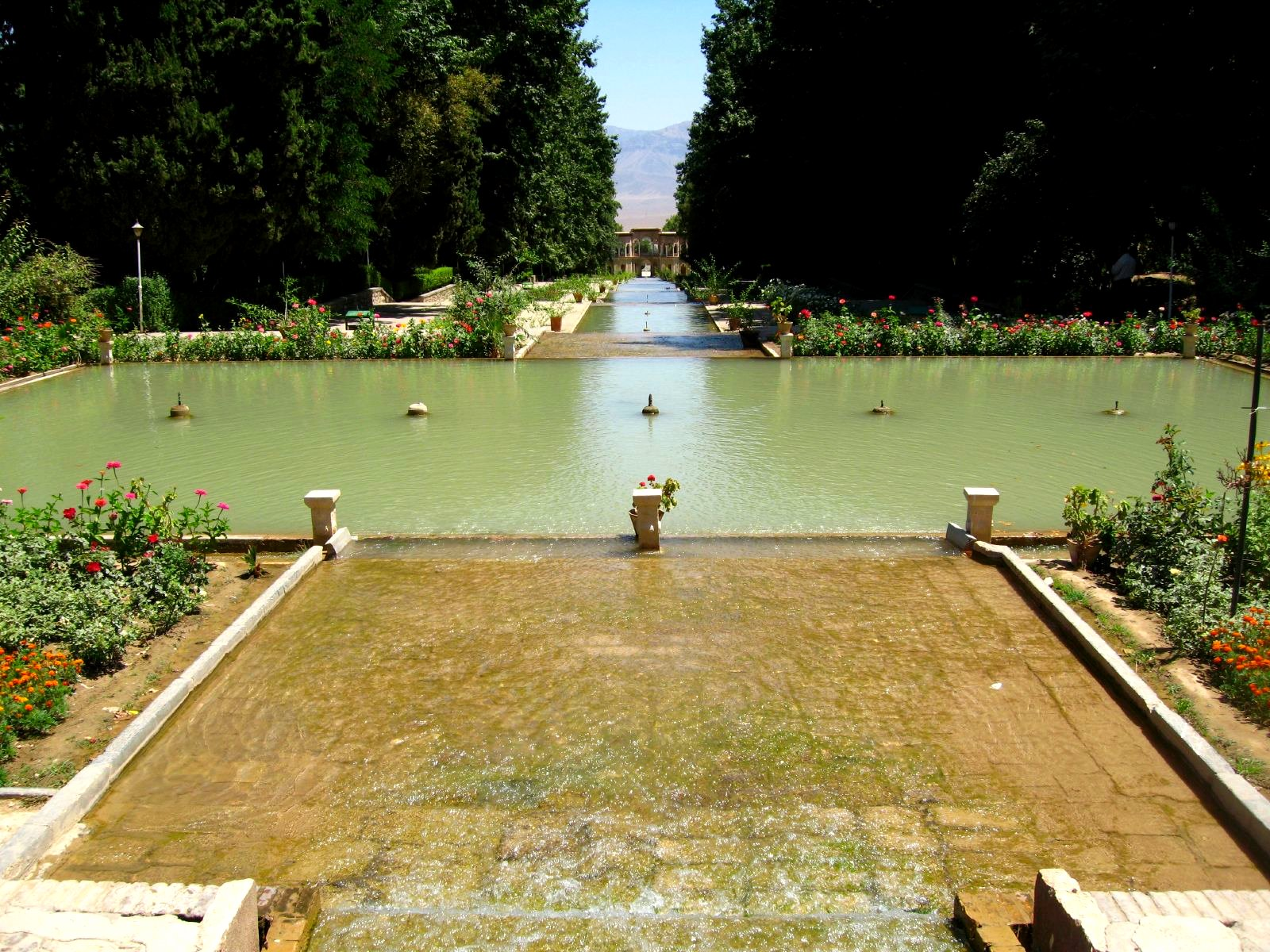 Bagh-e Shahzade, Kerman Province, Iran